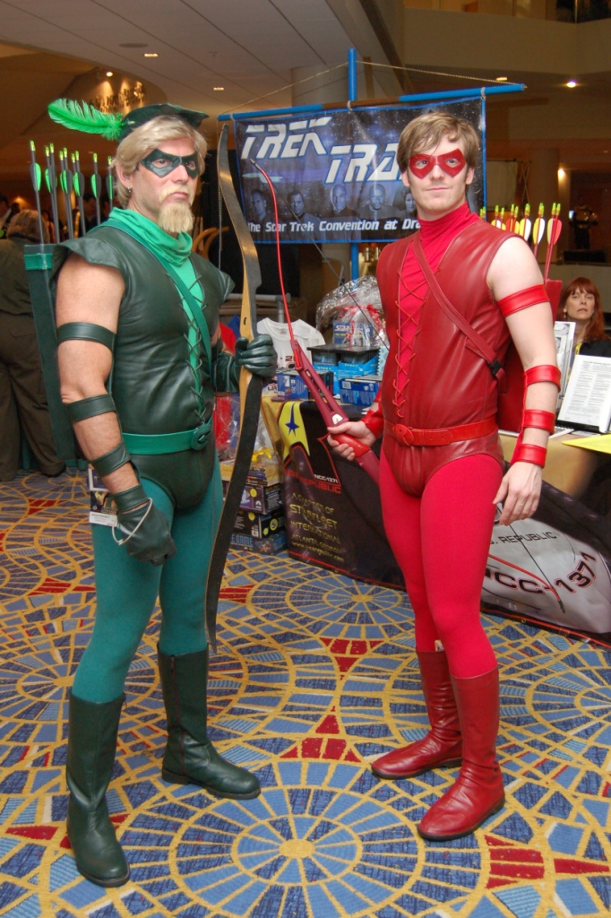 Green Arrow and Red Arrow, Comic Con 2008